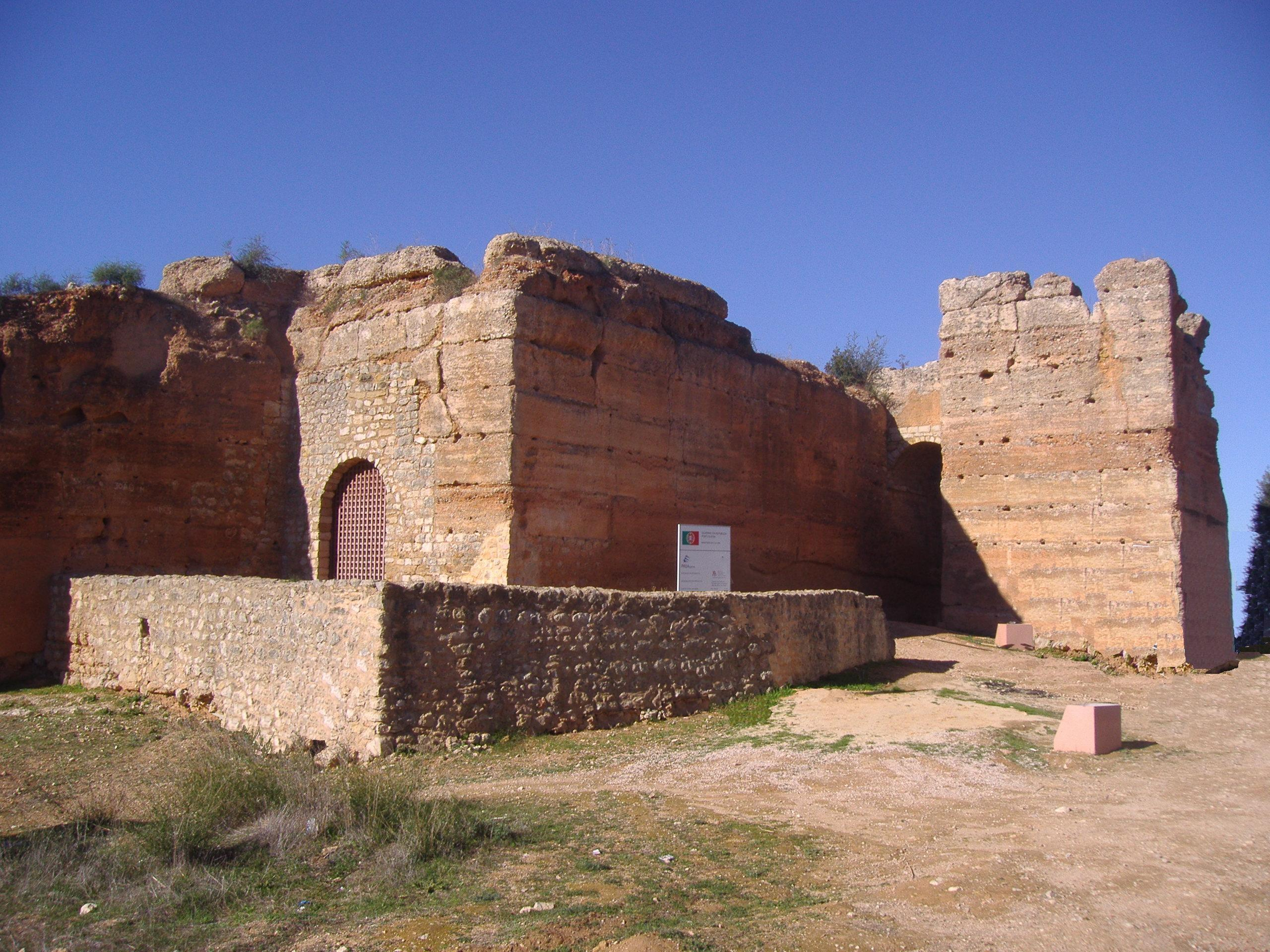 Paderne Castle Algarve Portugal 26th November 2007 by Beechgrove